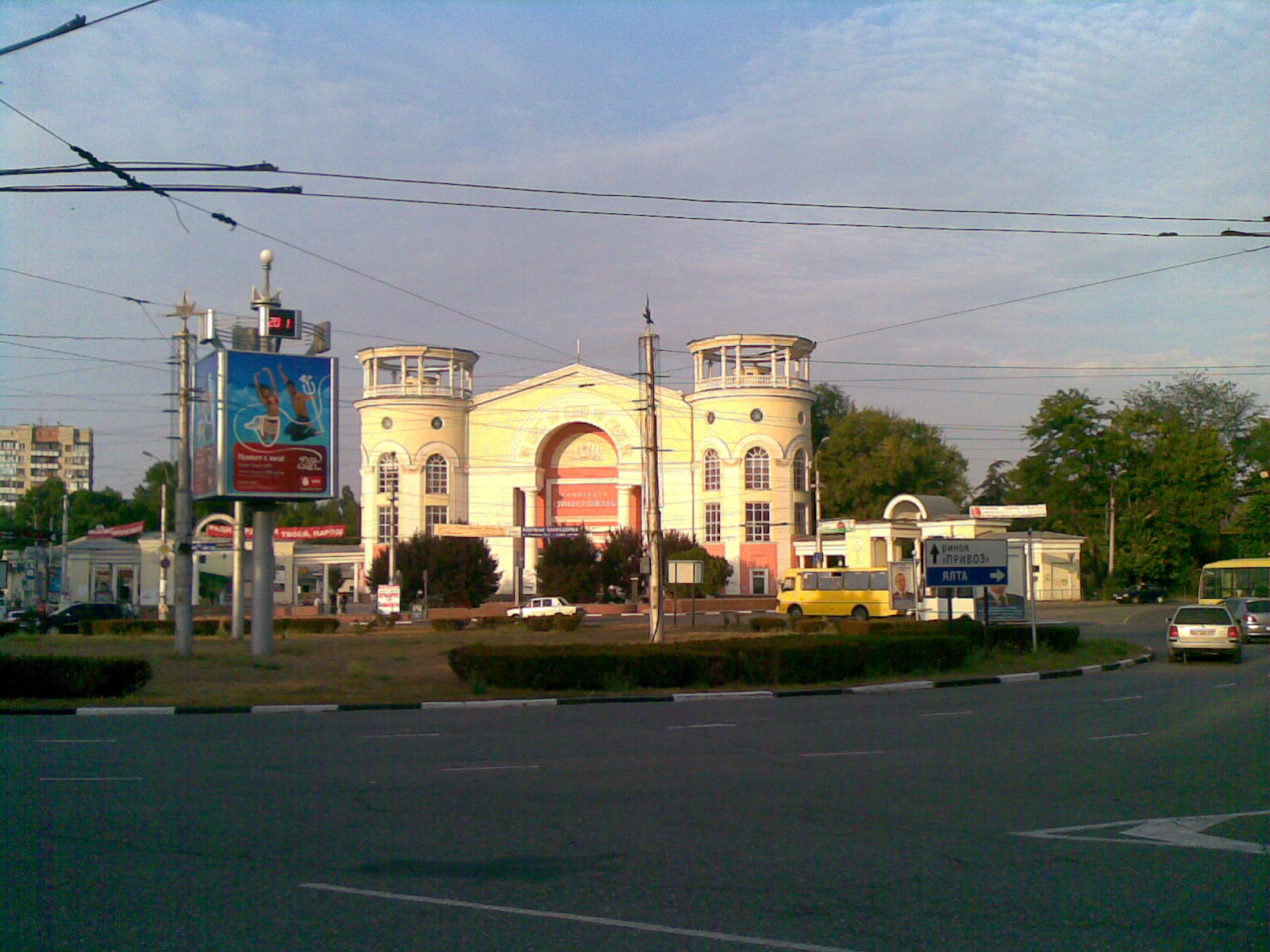 Simferopol_center